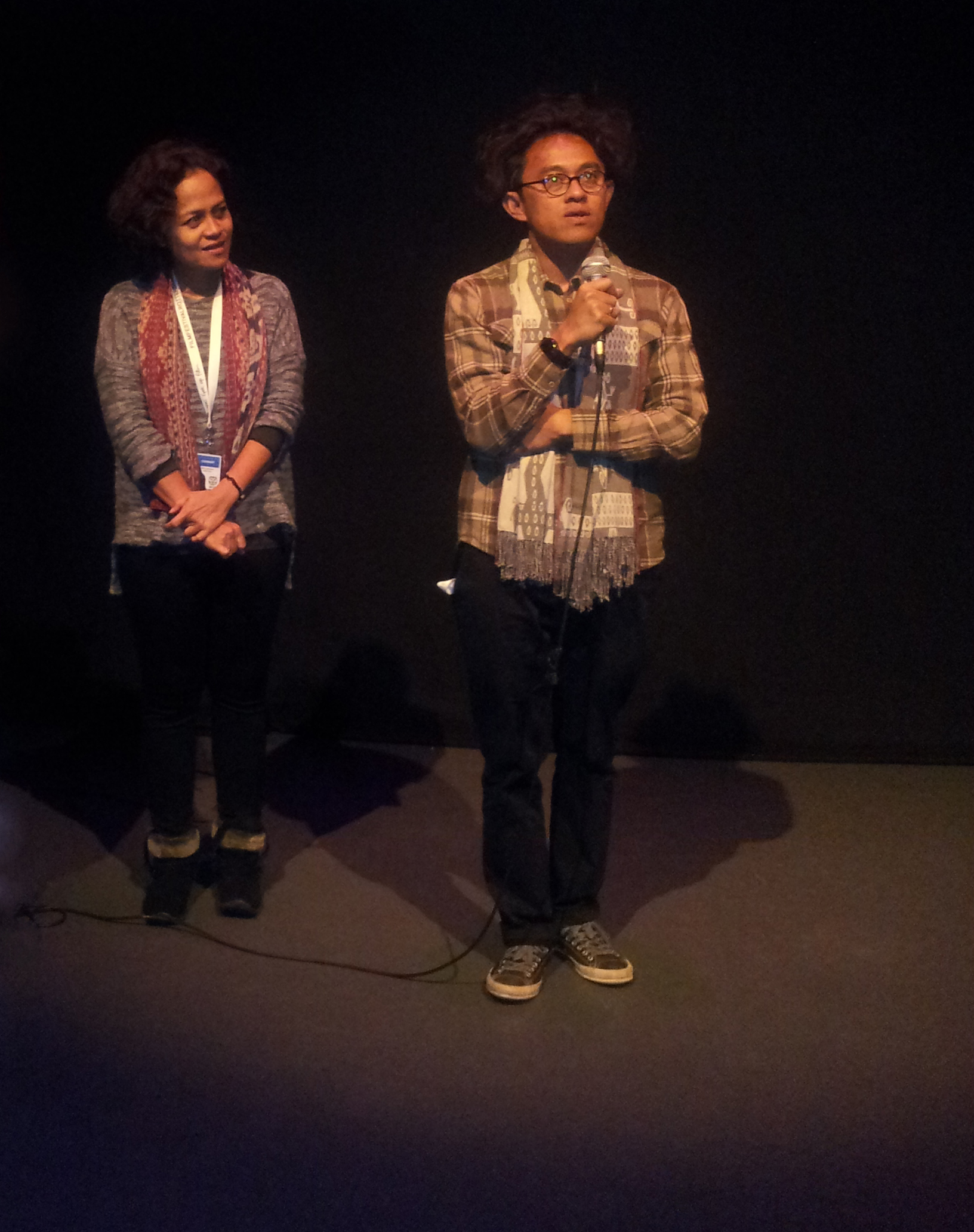 Mira Lesmana and Riri Riza at the screening of "Atambua 39° Celsius" at IFFR 2013